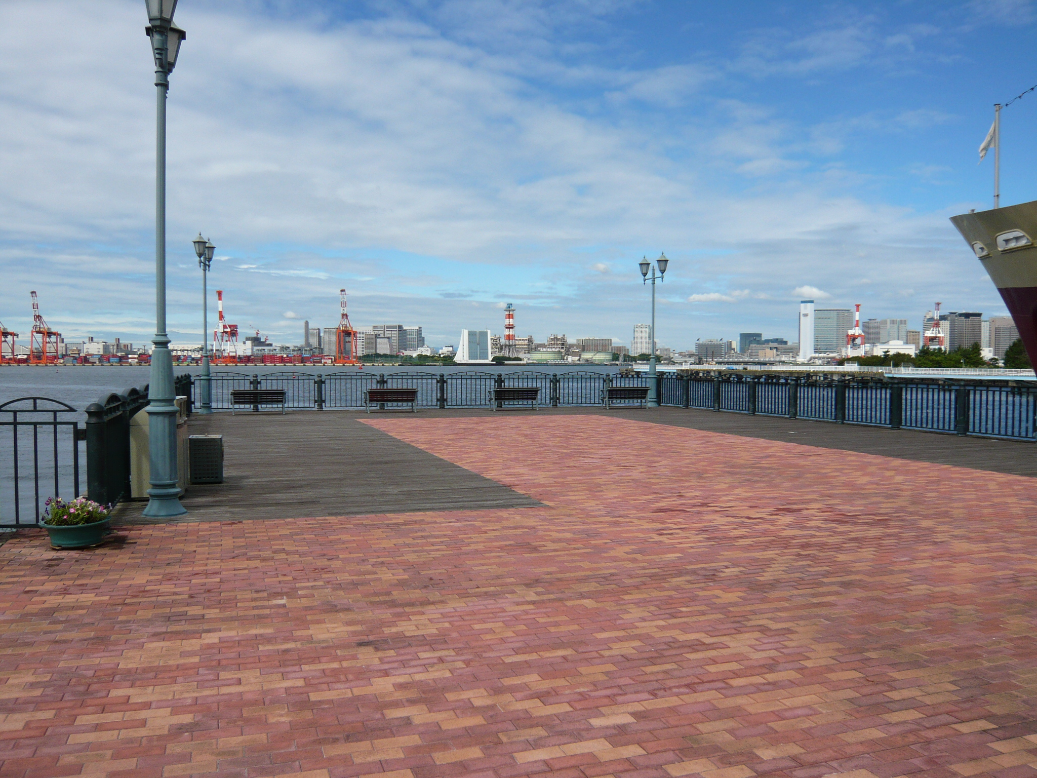 Aomi Kita Port Park (Aomi Kita Futou Kouen), in Tokyo, Japan.